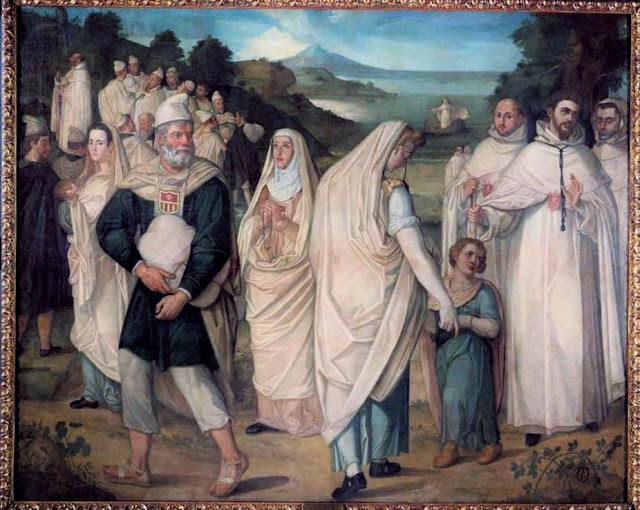 Francisco Pacheco, Mercedarians Ransoming Christian Captives Spanish, 1600-1611 Barcelona, Museo de arte de Catalunya